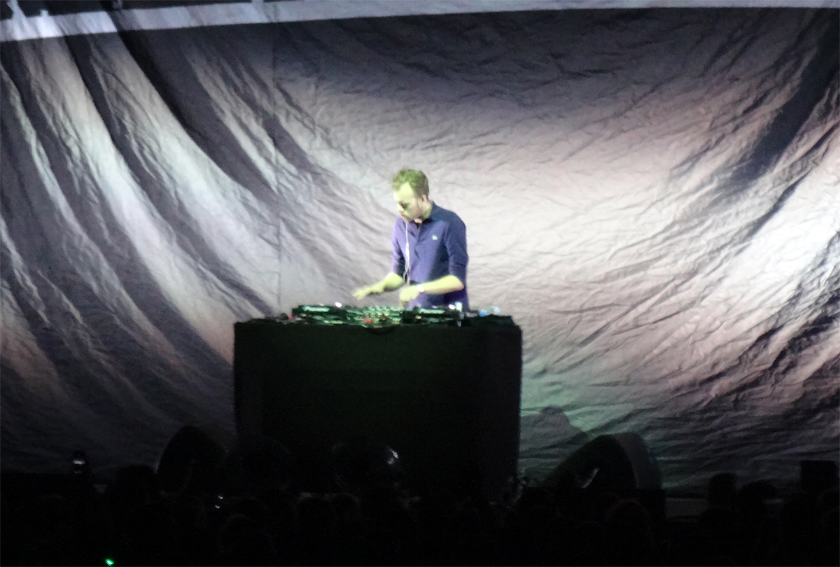 Phillip Speiser aka Dirty Disco Youth, Austrian DJ and composer. During the DJ-set before Scooter show in 24 January, 2014. After that show he officially became the next Scooter member.